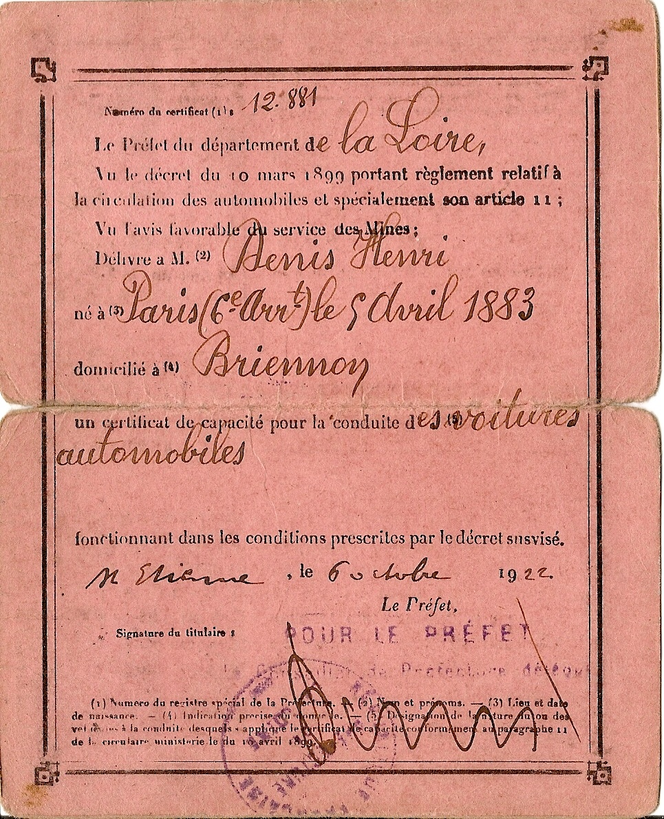 Certificat de capacité pour la conduite des voitures automobiles, an early french driver's license, dated from 1922, in Loire Department, France. Scan from private collection. 12 x 15 cm open